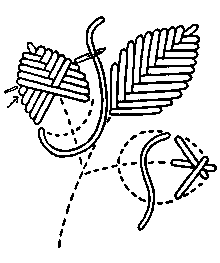 Raised fishbone stitch, from Samplers and Stitches, a handbook of the embroiderer's art by Mrs Archibald Christie, London 1920.